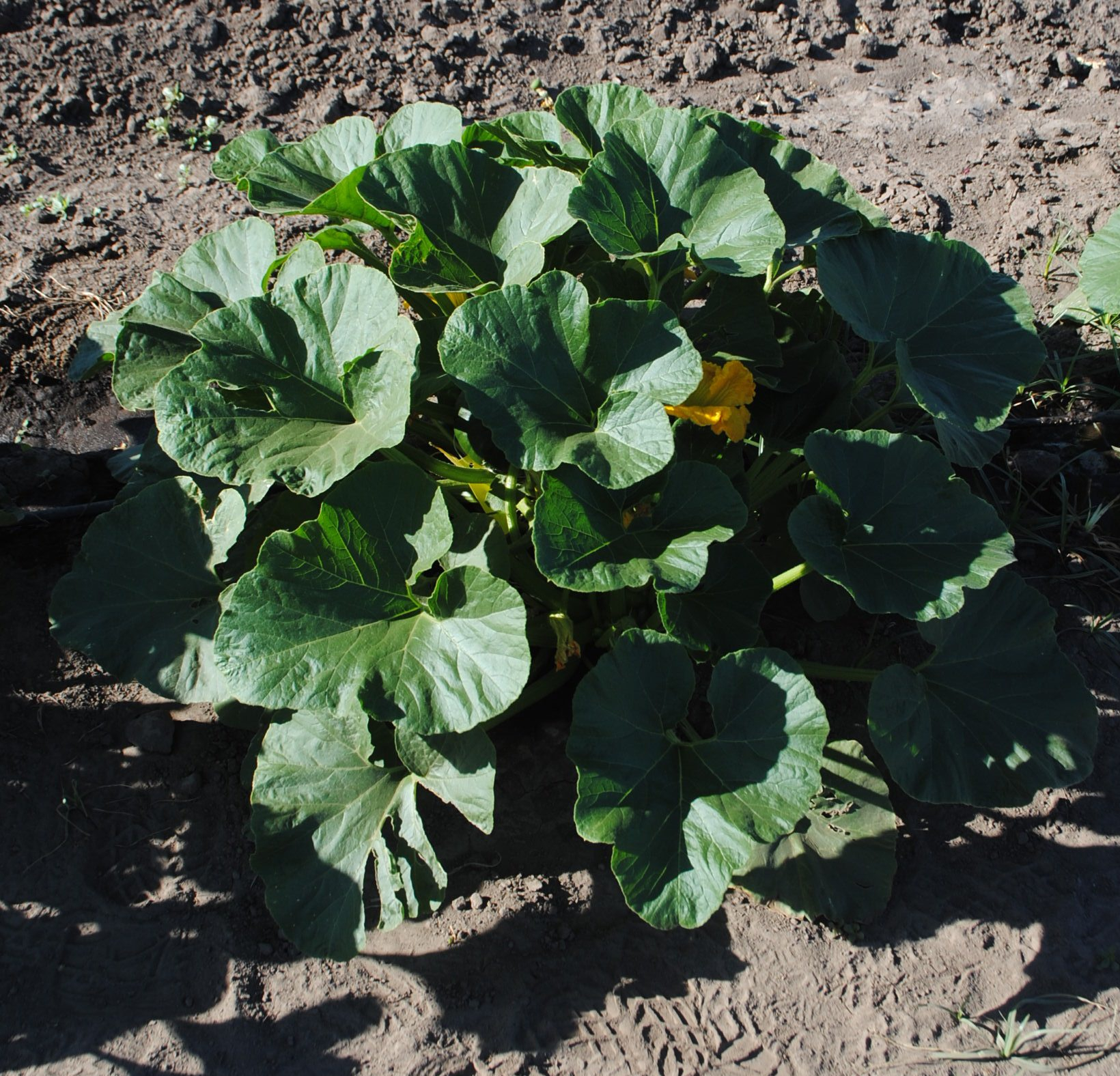 Compact Cucurbita maxima plant (detail)